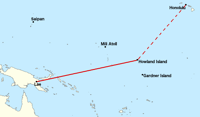 A map of the Pacific showing Amelia Earhart's final flight, her destination of Howland Island that she did not reach (as well as Honolulu, her goal afterward), and some proposed alternative places Earhart might have landed.